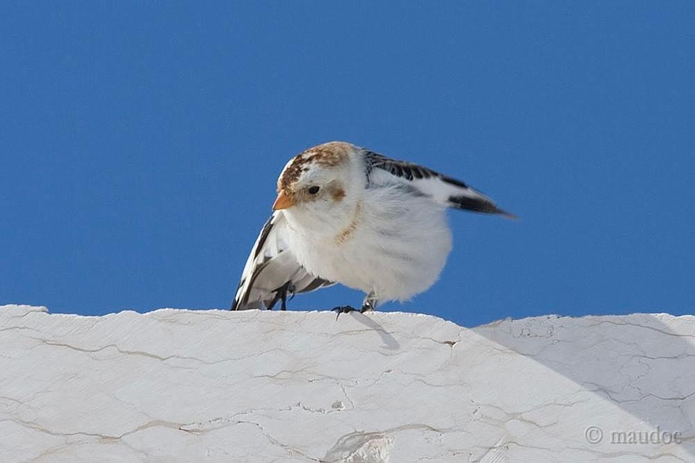 A Plectrophenax nivalis in winter